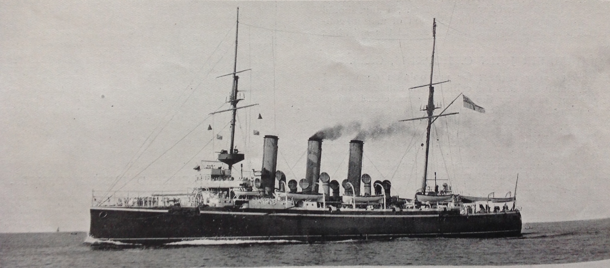 HMS Vindictive, from Navy and Army Illustrated, 1900